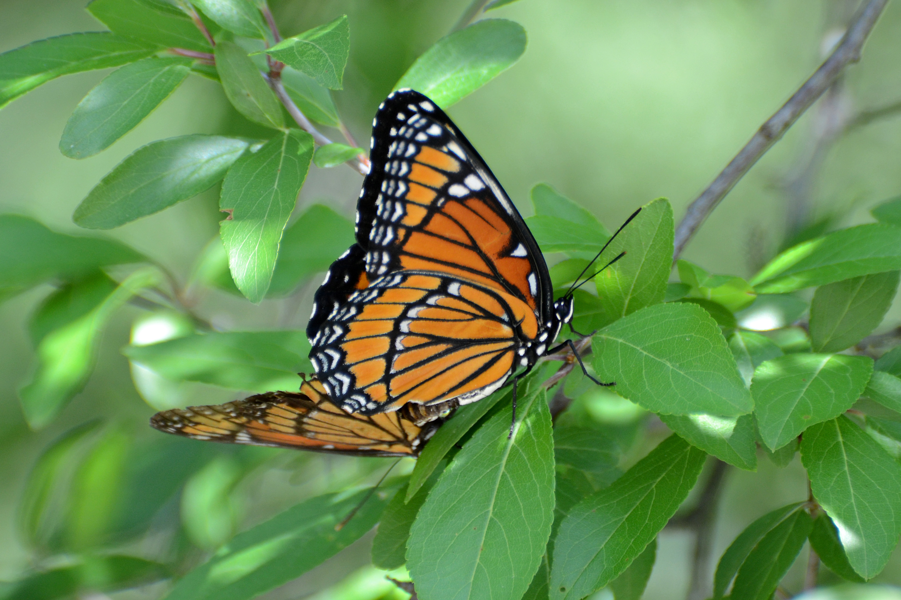 Nymphalidae: Limenitis archippus mimic of the Monarch, Danaus plexippus; Paynes Prairie State Preserve, FL